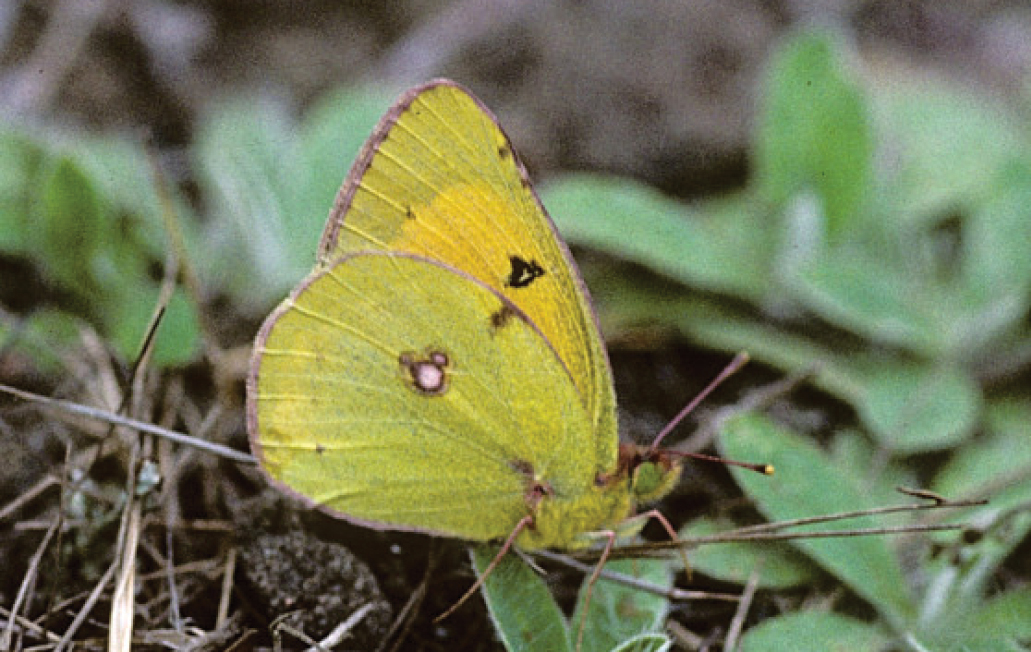 Colias mymidone.